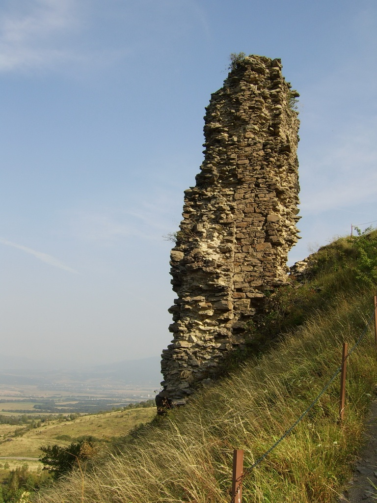 Ruins of Sivý kameň castle. Podhradie, Slovakia.